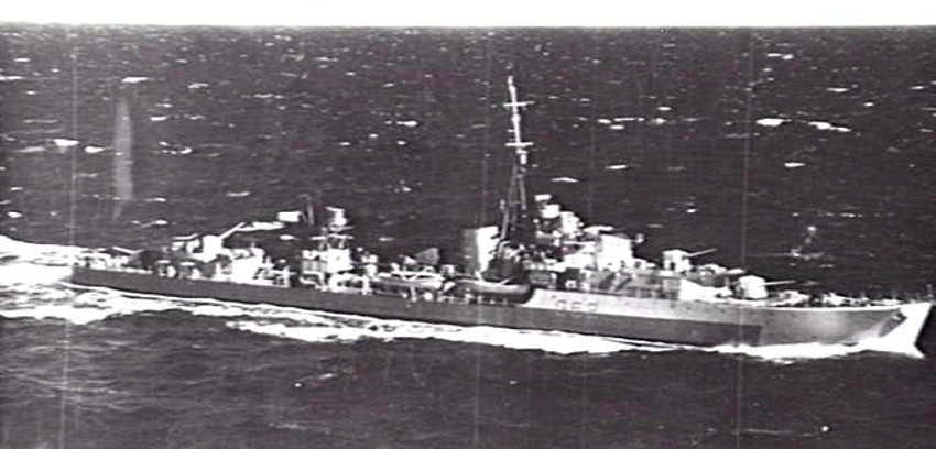 The Royal Australian Navy destroyer HMAS Quality (G62) underway at sea, circa in late 1945. Quality was transferred to the RAN on 8 October 1945 and was already decommissioned on 25 January 1946. The breeches of her four 4.7 inch Mark IX guns are covered as is the quadruple 2 pounder AA gun abaft the funnel. Note the two 20 mm Oerlikon AA guns mounted on the starboard side of the searchlight platform amidships. The searchlight itself has been replaced by a type 272 radar lantern. A type 291 radar aerial is fitted at the masthead and a type 285 aerial mounted above the high angle director tower at the back of the bridge. The ship is painted in an admiralty standard camouflage scheme but the hull panel, which normally extended only to the end of the after superstructure, has been continued to the stern.